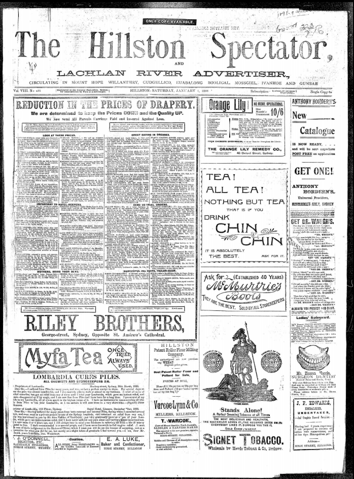 Front page of The Hillston Spectator and Lachlan River Advertiser newspaper 1 January 1898